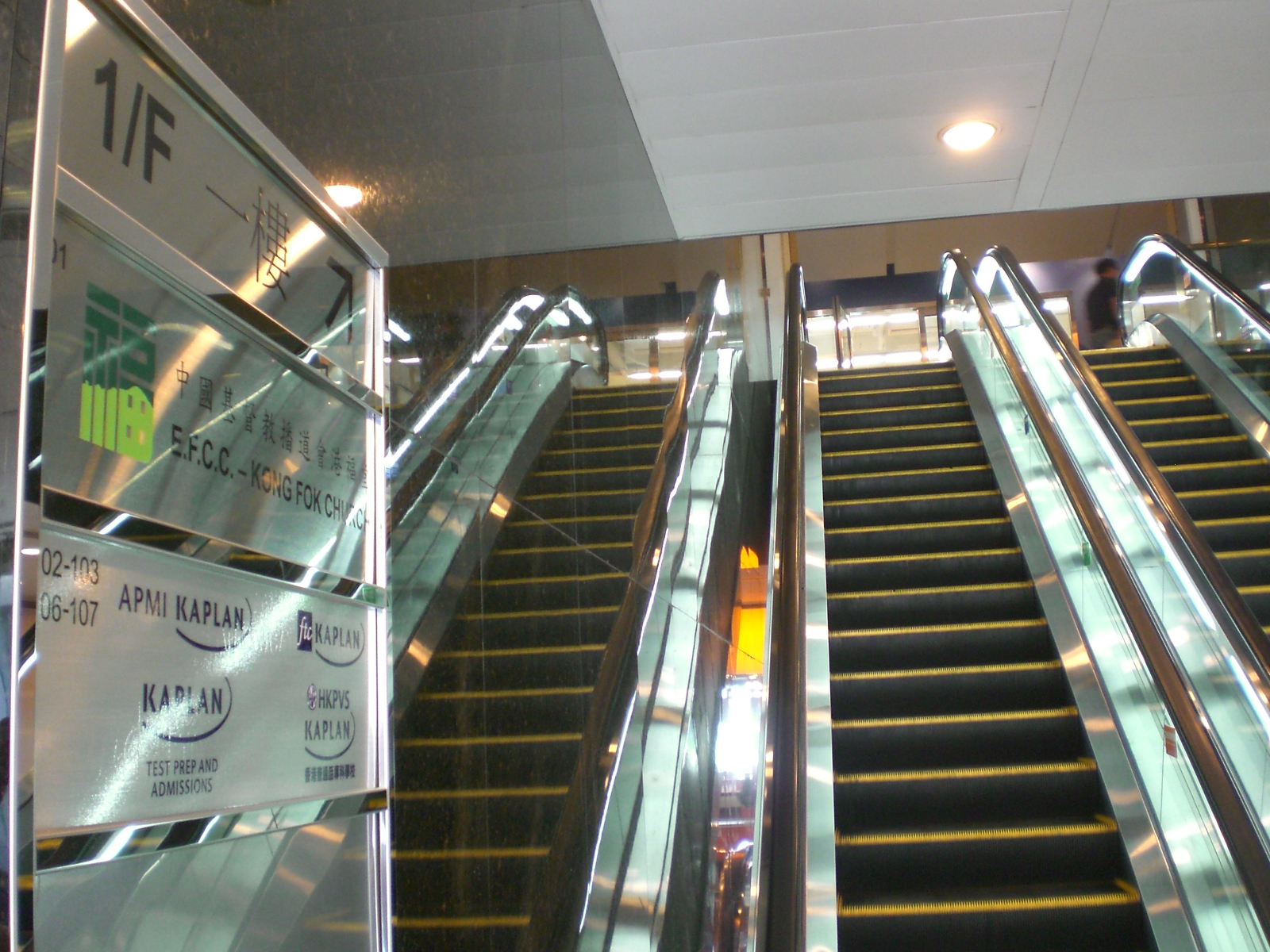 FTC Kaplan, Kaplan, Inc., Hong Kong office and classrooms, Far East Finance Centre, Queensway, Hong Kong.